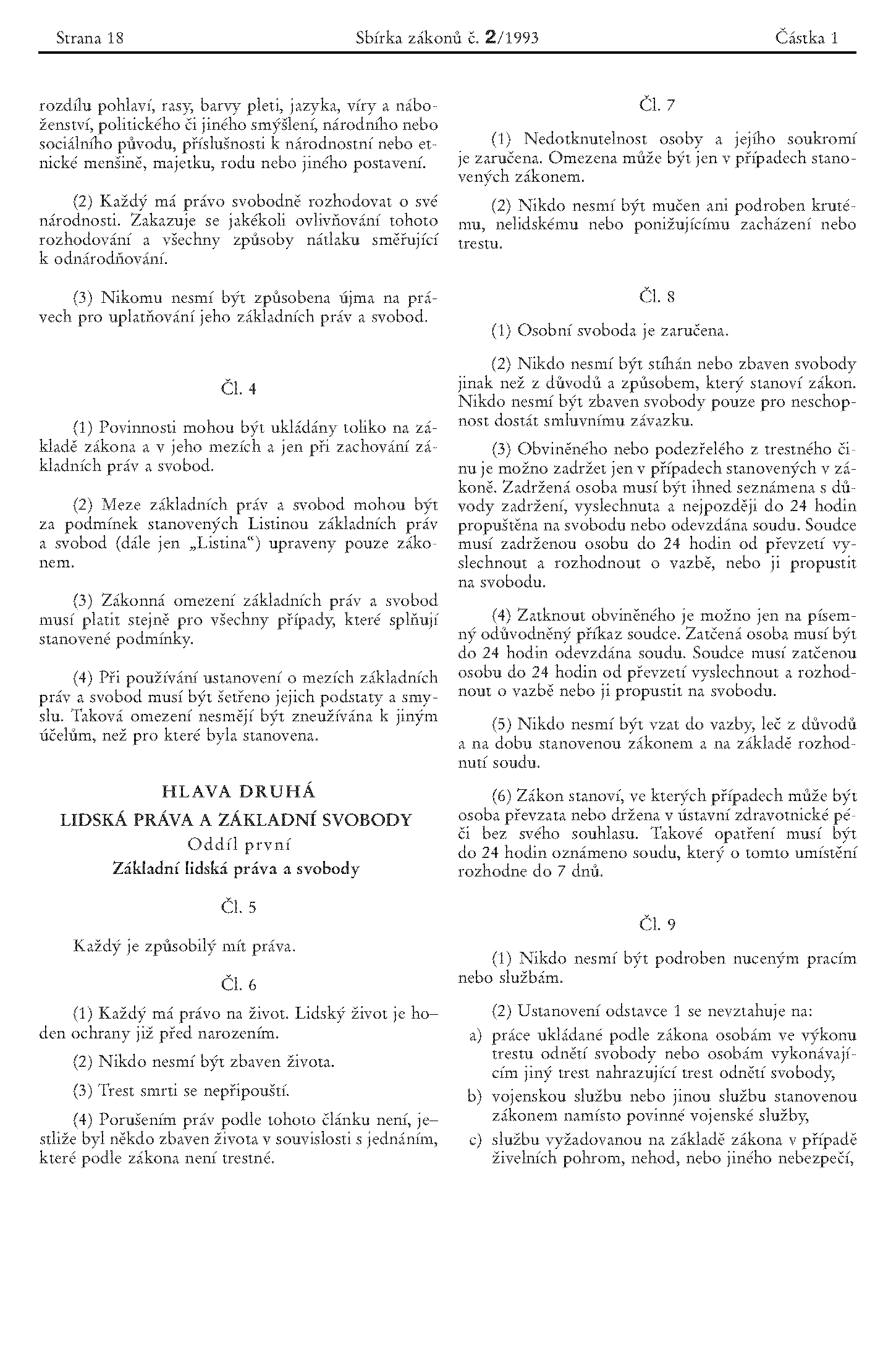 Czech Collection of Laws' official issue with the 1993 Constitution No. 1/1993 Coll. Česky: Stejnopis Sbírky zákonů s Ústavou České republiky (1/1993 Sb.) a Listinou základních práv a svobod (2/1993 Sb.)